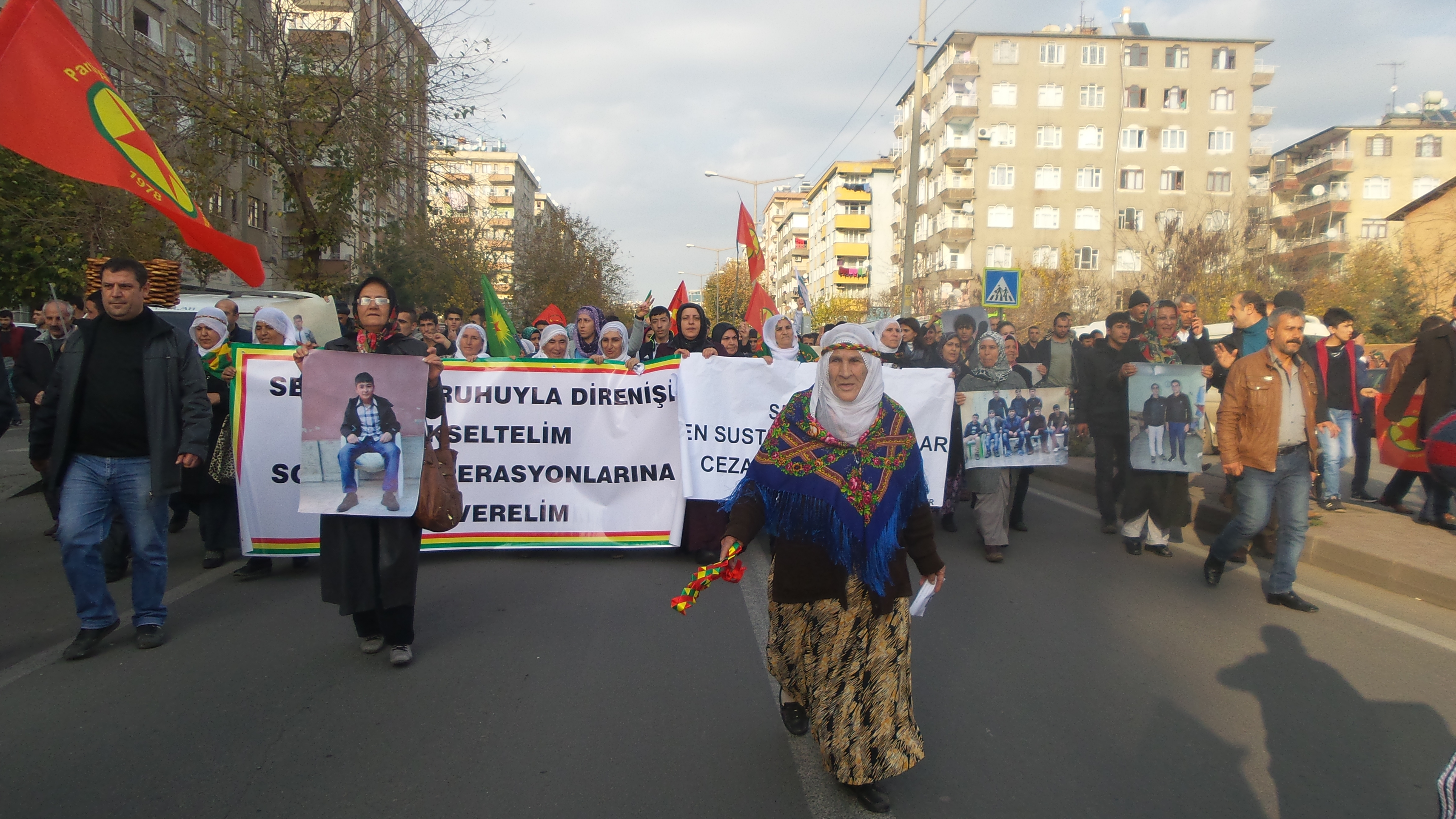 Kurds protesting against Turkish government inaction following the ISIS advance into the Syrian Kurdish city of Kobanî.